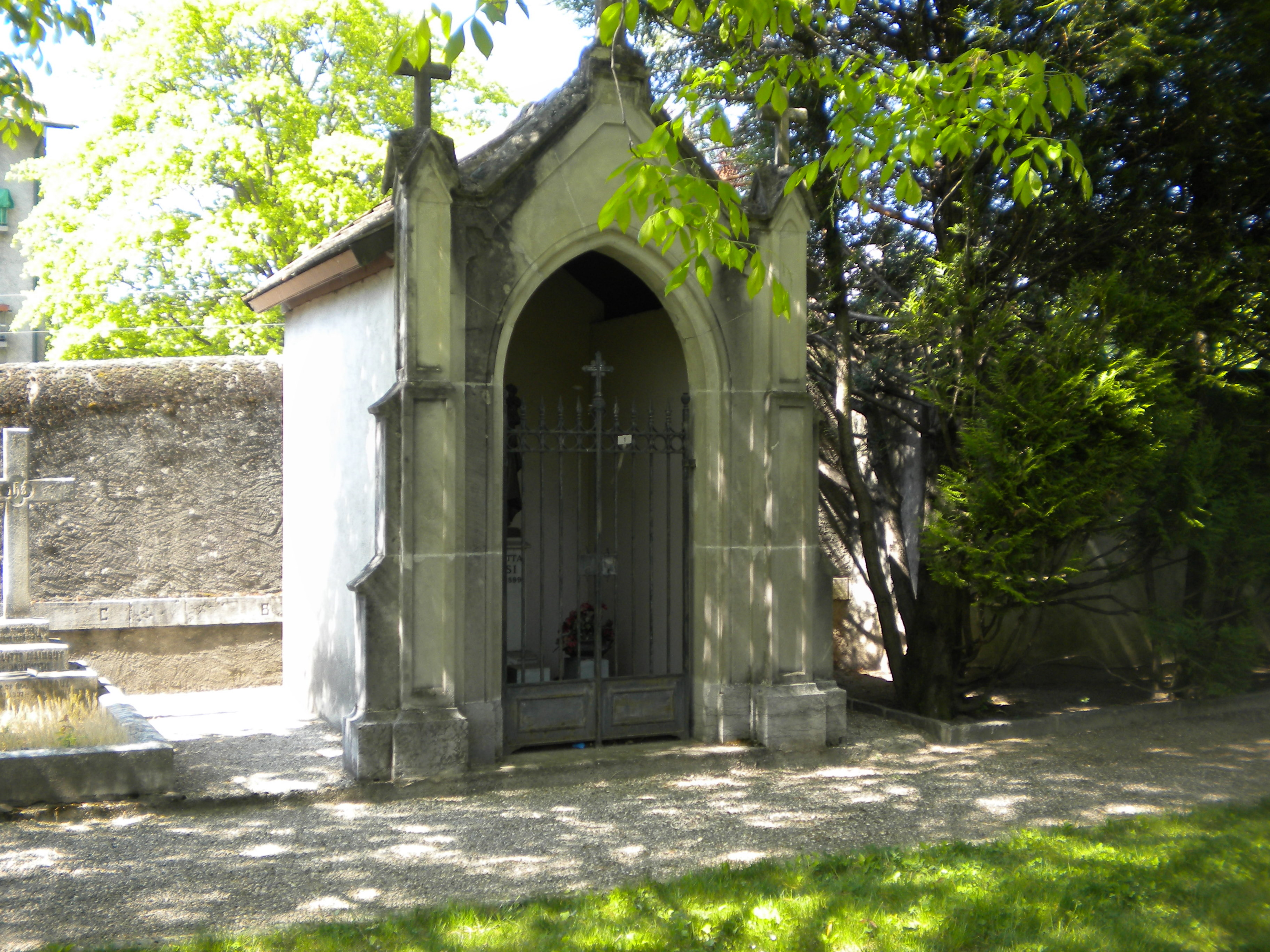 Sepulchral vault (with tomb) of Carlotta Grisi, Cemetery of Châtelaine, next to Saint-Jean, Geneva